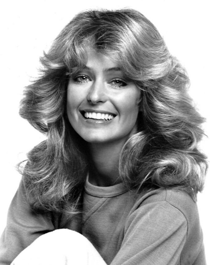 Photo of Farrah Fawcett from the television program Charlie's Angels.